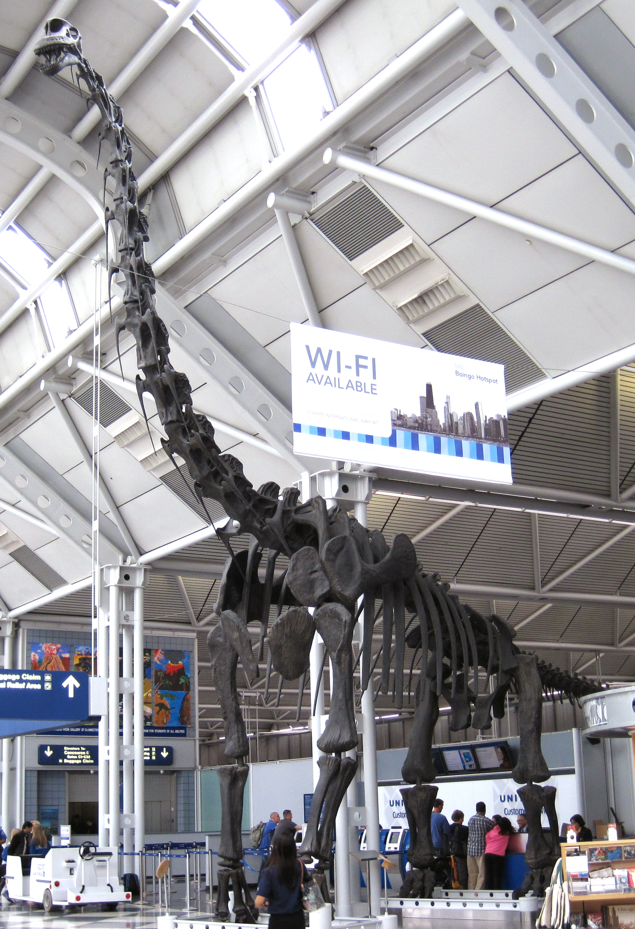 Brachiosaurus altithorax sauropod dinosaur (cast of holotype skeleton + reconstructed missing parts) from the Jurassic of Colorado, USA (mount owned by Field Museum of Natural History & on display at O'Hare Airport's Terminal B in Chicago, Illinois, USA). Classification: Animalia, Chordata, Vertebrata, Dinosauria, Sauropodomorpha, Brachiosauridae Stratigraphy: Brushy Basin Member, Morrison Formation, Upper Jurassic Locality: Riggs Hill, near Fruita, western Colorado, USA Sauropod dinosaurs were the largest terrestrial animals ever. They all have the same basic body plan: large body with four walking legs, very long neck & tail, and a small head relative to body size. Sauropods were herbivores, and are often perceived as holding their heads & necks up high to reach vegetation normally out of reach to other organisms. Modern reconstructions of many sauropod species depict them with heads and necks held close to the horizontal, or at low angles above the horizontal.